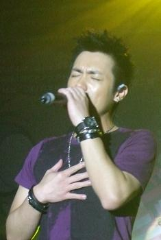 Van Fan (范逸臣 Fan Yi Chen); Famous Taiwan rocker/singer and actor. He acted the film "Cape No.7" in 2008. This picture was taken during his performance tour in Taiwan May 2009.